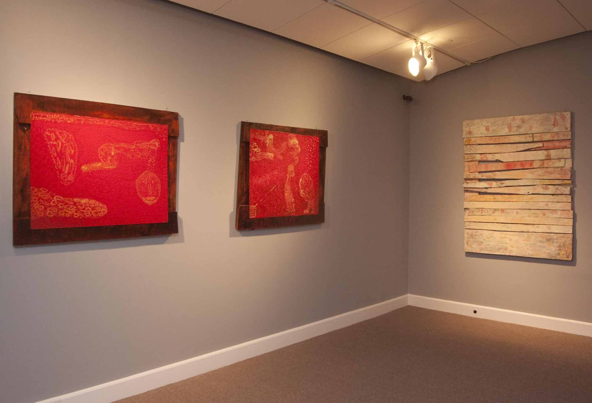 Piezas de las series Sueño e colorao y Titania e brao, Queen Sofia Spanish Institute